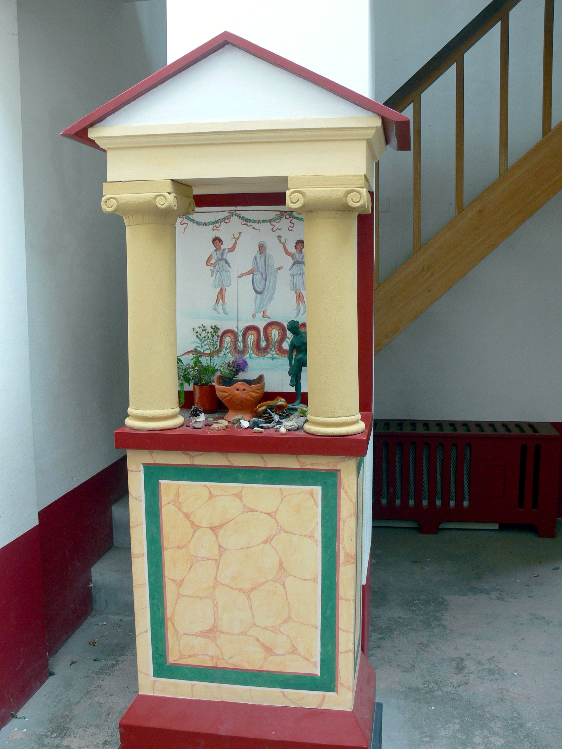 Bible museum in Njimegen. Roman town: Lararium - shrine for the patron gods of the house